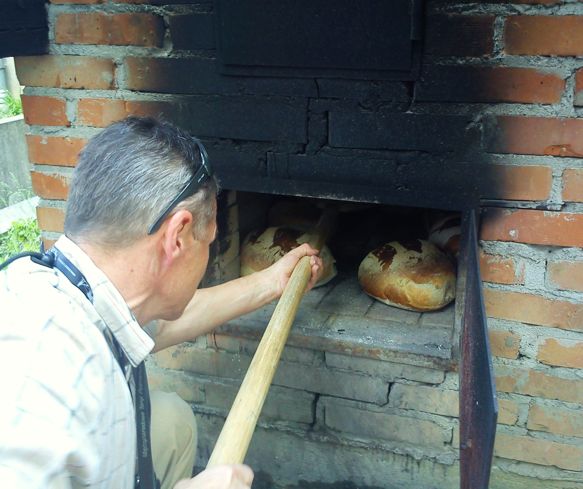 Home baked polish bread. Bake bread. Museum of Agriculture in Szreniawa.